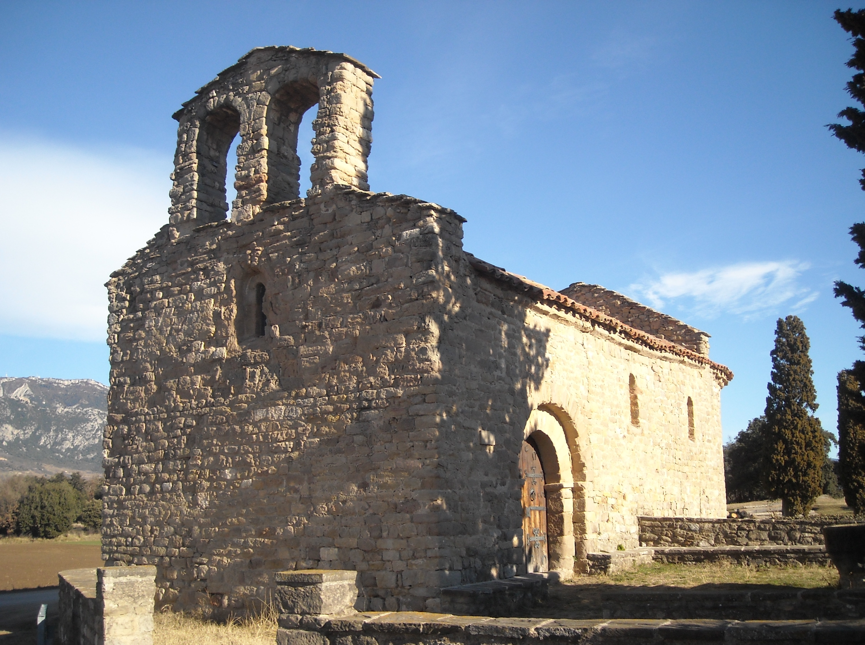 Santa Maria d'Avià (Berguedà, Catalunya)